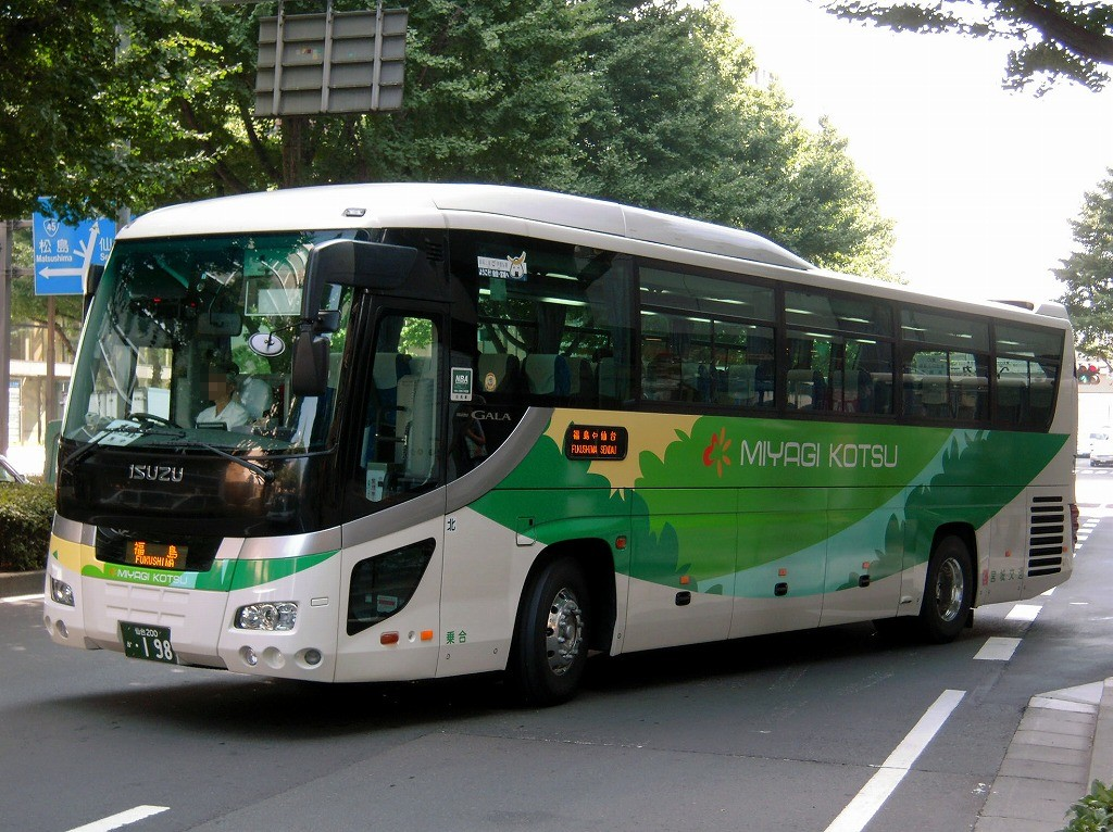 Miyagi kotsu Isuzu Gala (2nd generation,PKG-RU1ESAJ)Highwaybus "Sendai-Fukushima"